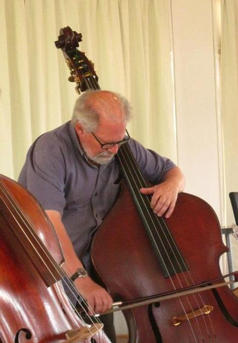 Thomas Martin teaches in San Juan, Argentina, Sep. 2012.